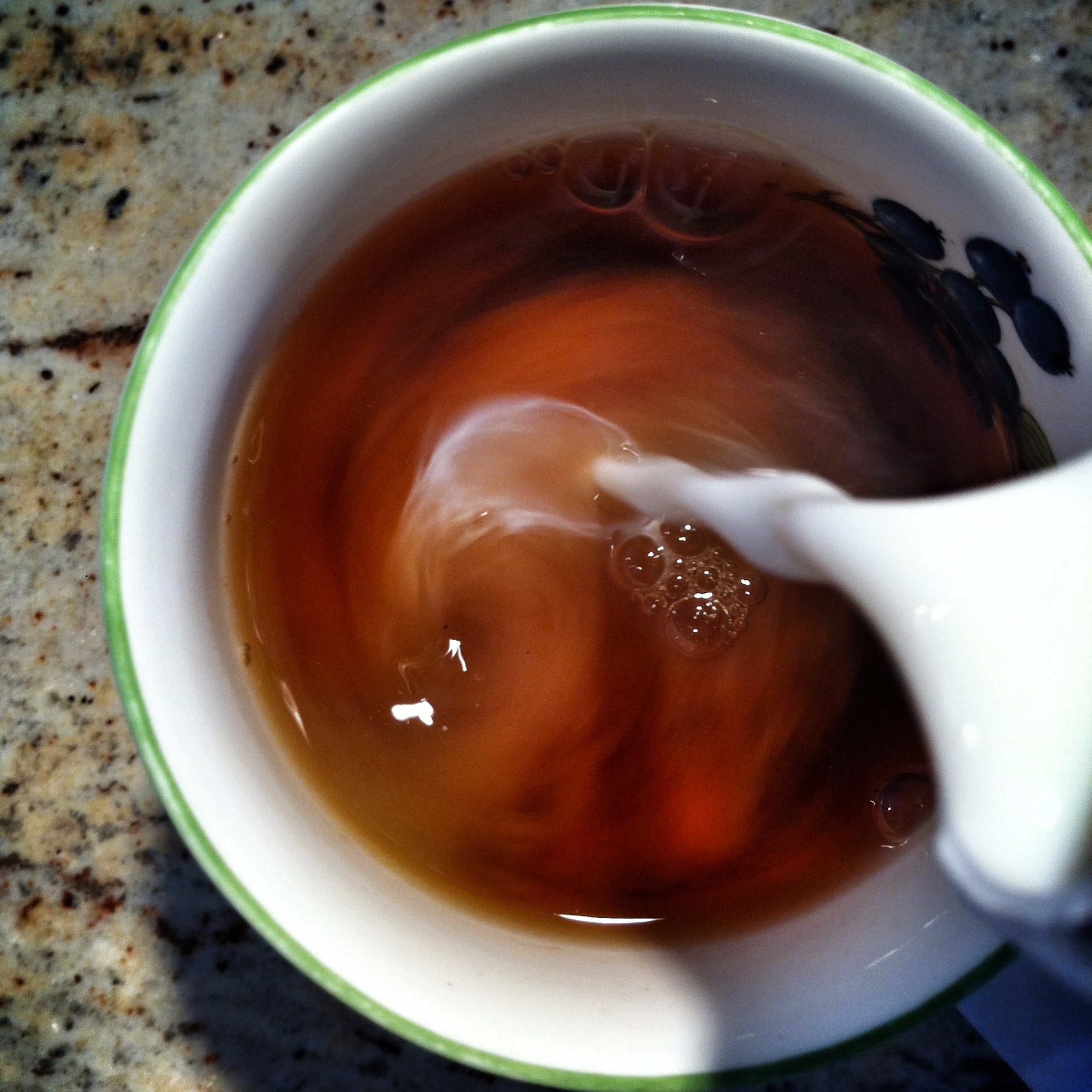 Milk being added to stirred Black (assam) tea in a china beaker.